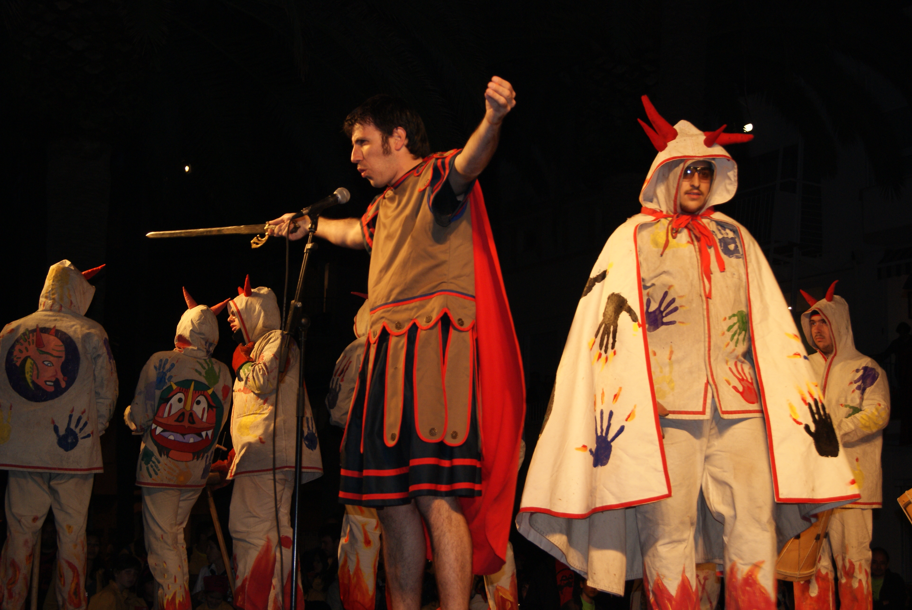 Representation of the fight in the Sacramental Act between Saint Anastasius of Lleida (or Badalona) and Lucifer and her companions under Badalona's May Festival (2011).